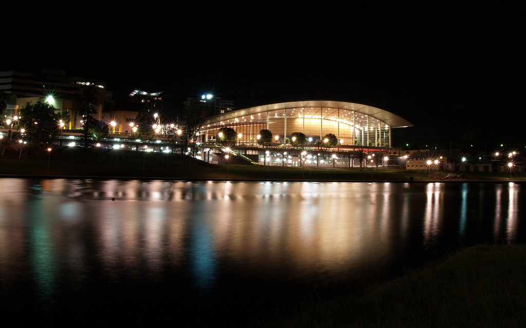 Adelaide Convention Centre at night